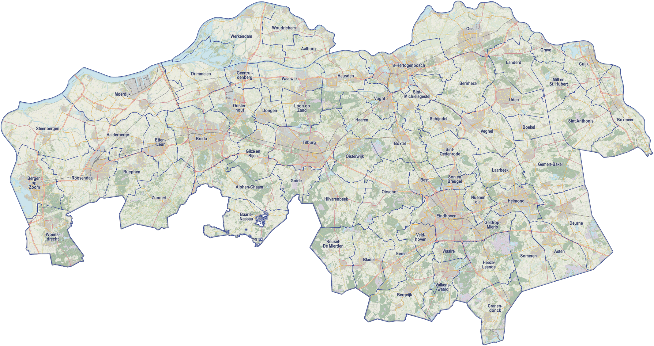 Outline overview map of the province, with municipal borders (2016) and an impression of the terrain.